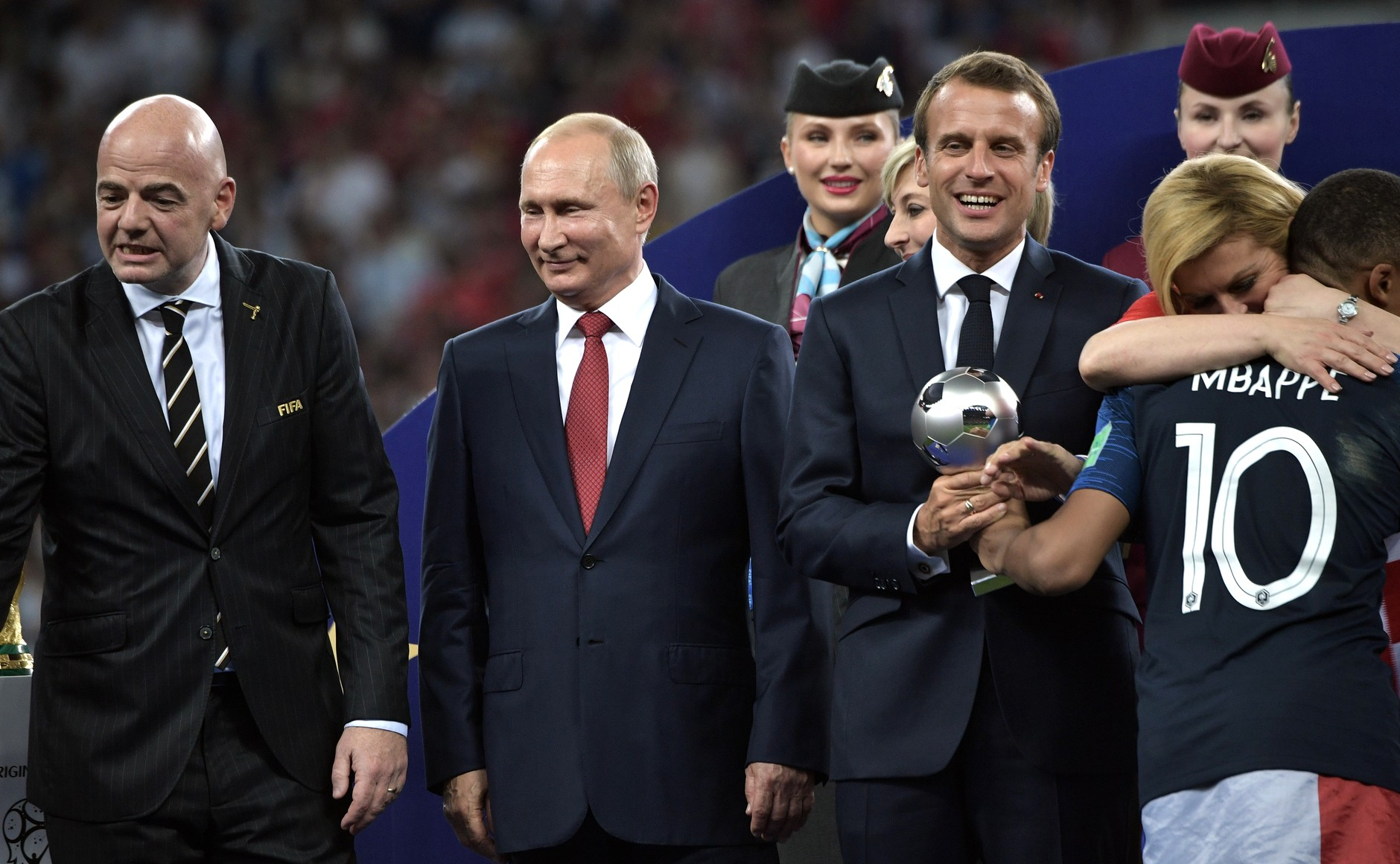 Kylian Mbappé receives the best young player award at the 2018 Football World Cup Russia